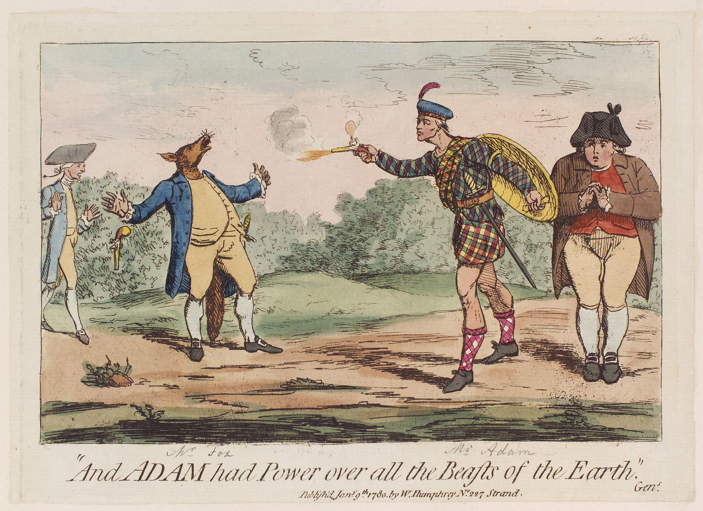 And Adam had power over all the beasts of the earth, by James Gillray (died 1815), published 1780. All images in this batch have been confirmed as author died before 1939 according to the official death date listed by the NPG.